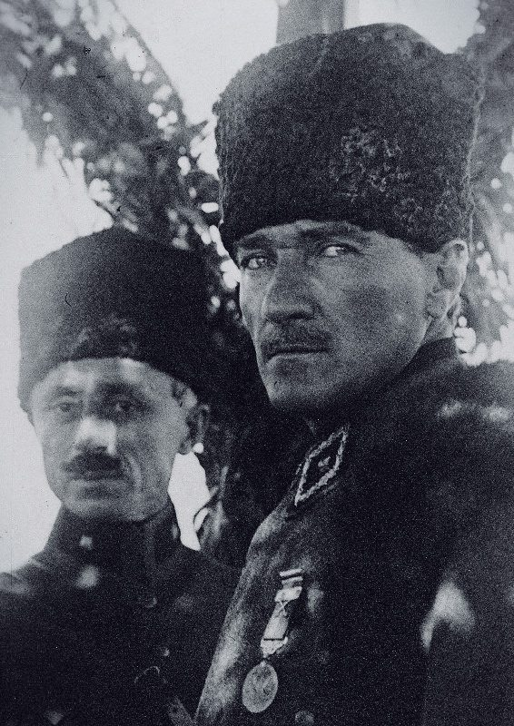 Mustafa Kemal (Atatürk) and Refet (Bele) during the Turkish War of Independence